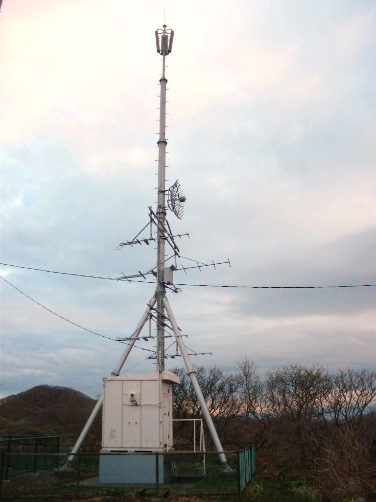 Muroran-Bokoi analog television transmitting station in Muroran, Hokkaido, Japan